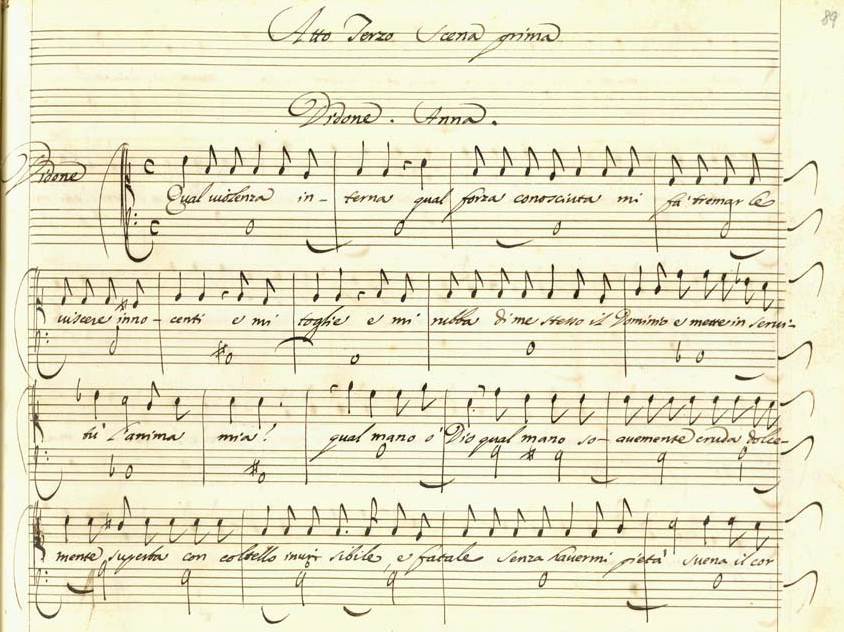 Cavalli - Didone - first page of act 3